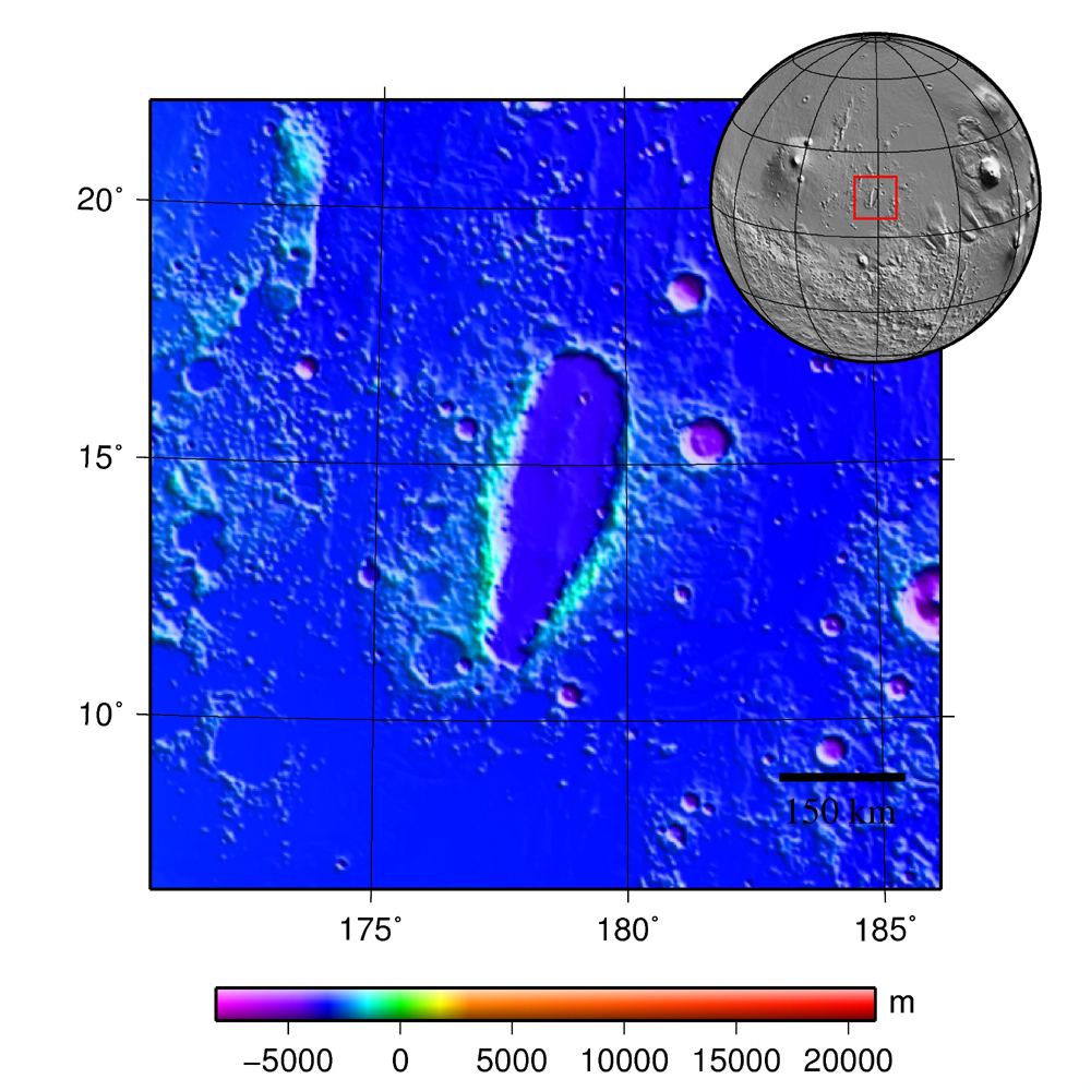 Orcus Patera (Mars) topography